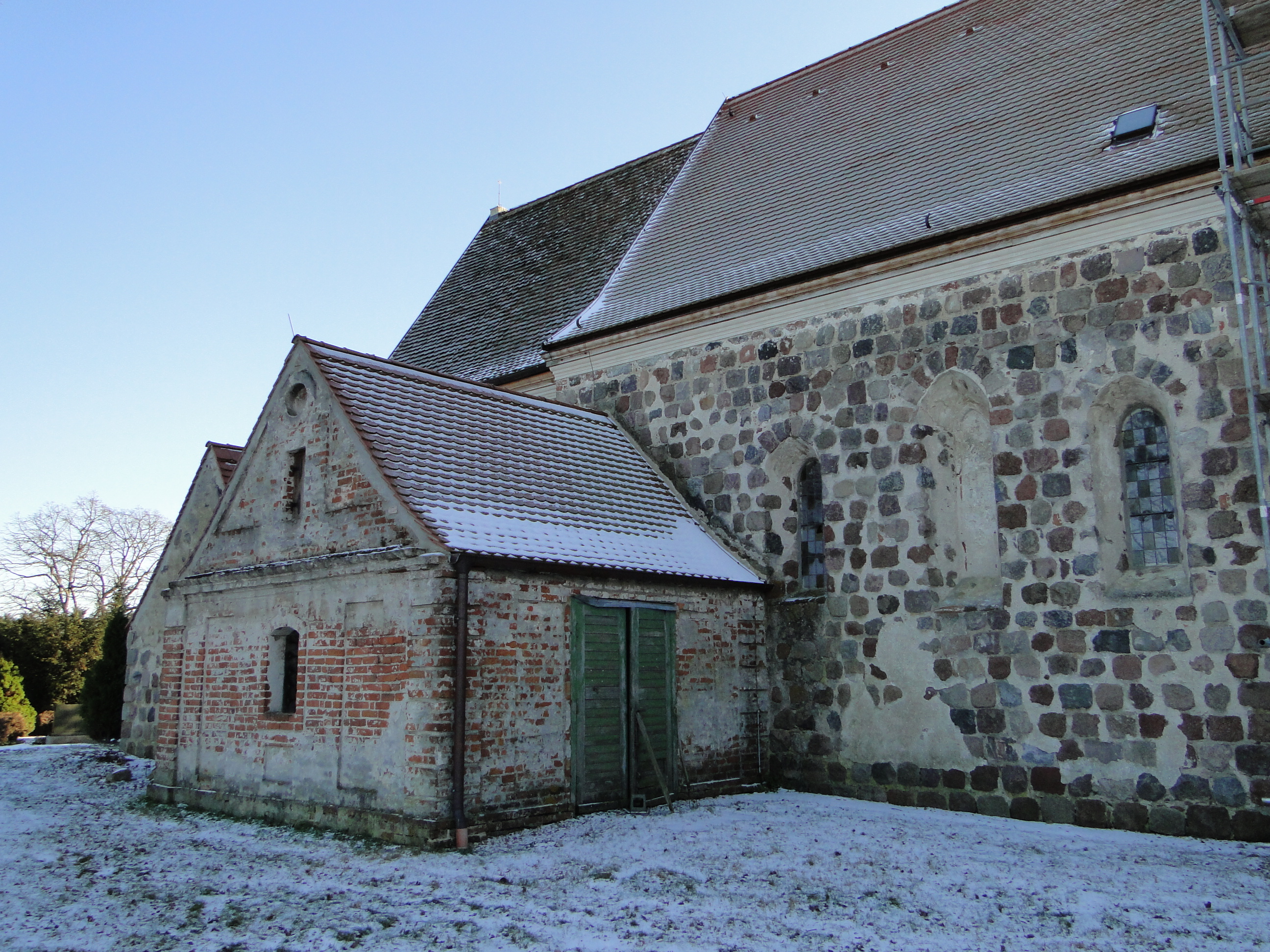 Church in Kotelow, district Mecklenburg-Strelitz, Mecklenburg-Vorpommern, Germany